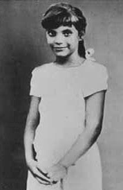 Missing person Beverly Potts before she disappeared